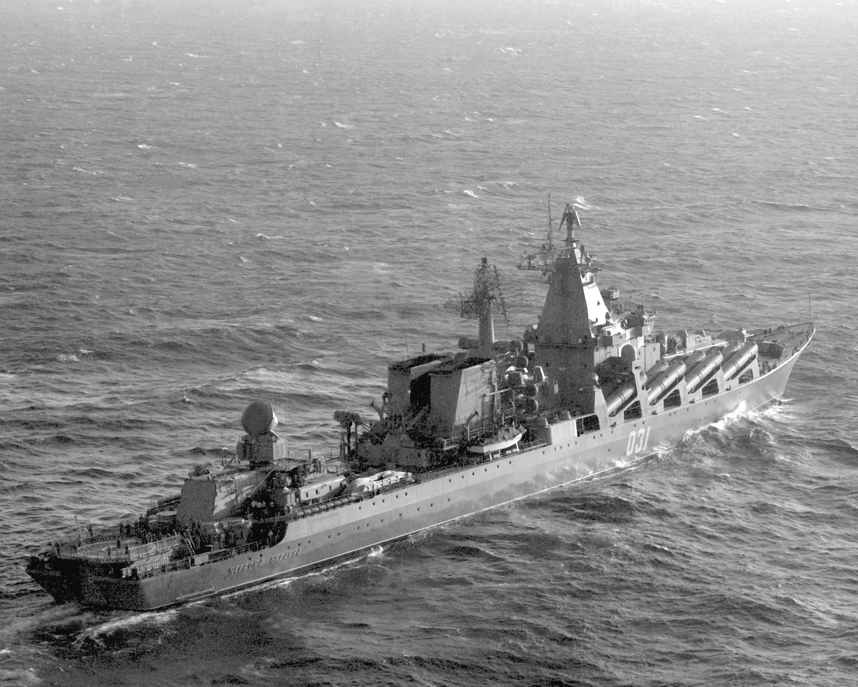 A starboard quarter view of the Soviet Slava class guided missile cruiser CHERVONA UKRAINA underway while en route to its new Pacific Ocean home port.